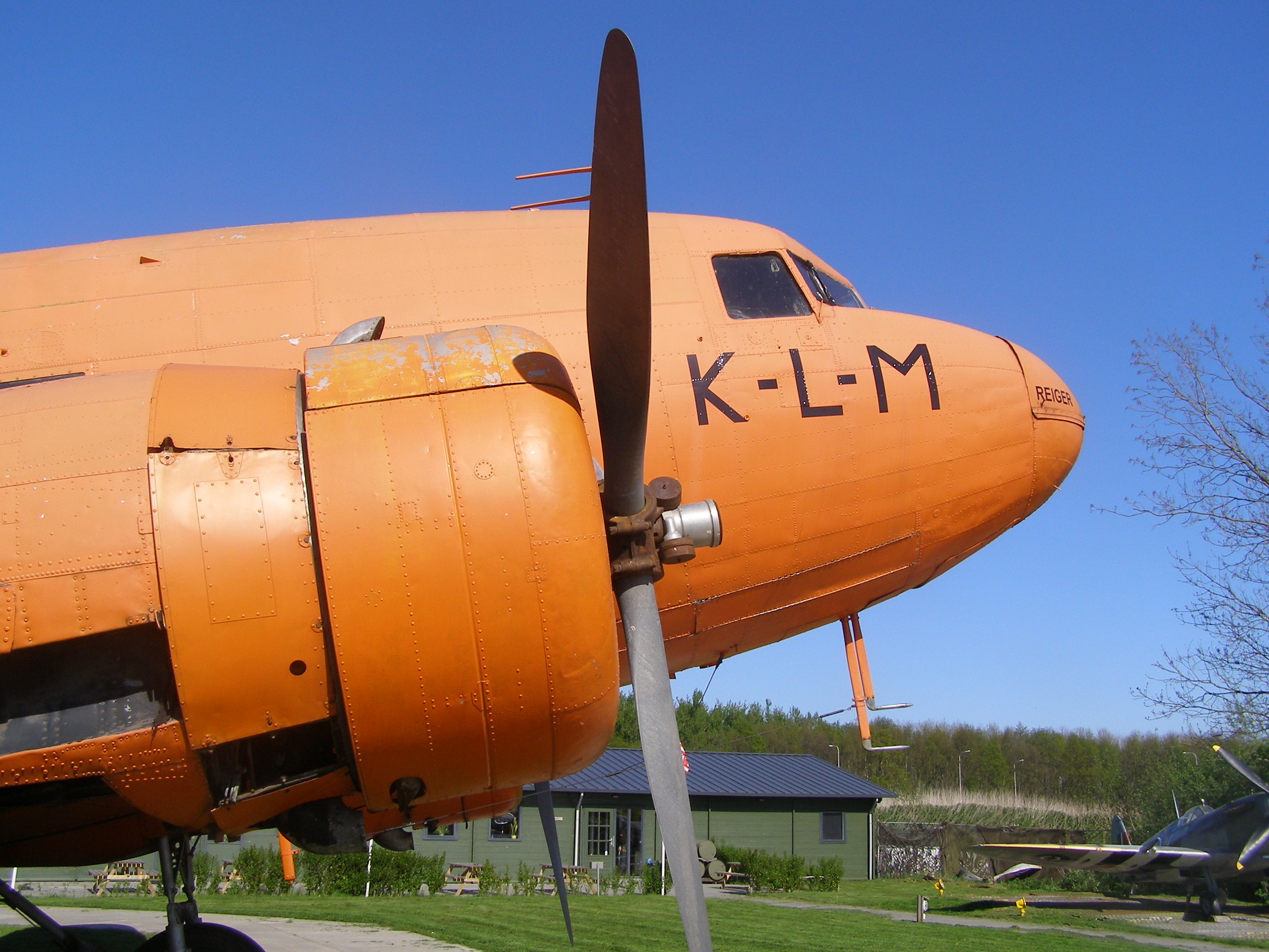 Douglas C-47 Dakota displayed as PH-ALR at the Aviodrome Lelystad, Netherlands